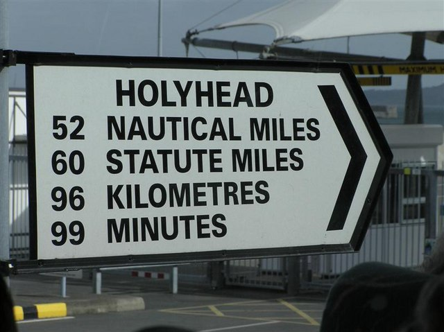 Dun Laoghaire Sign. You take in a few facts before setting sail. I checked the speed of the HSS on the open sea with my GPS meter and it clocked 72.6Km/hr (45mph) - pretty fast!